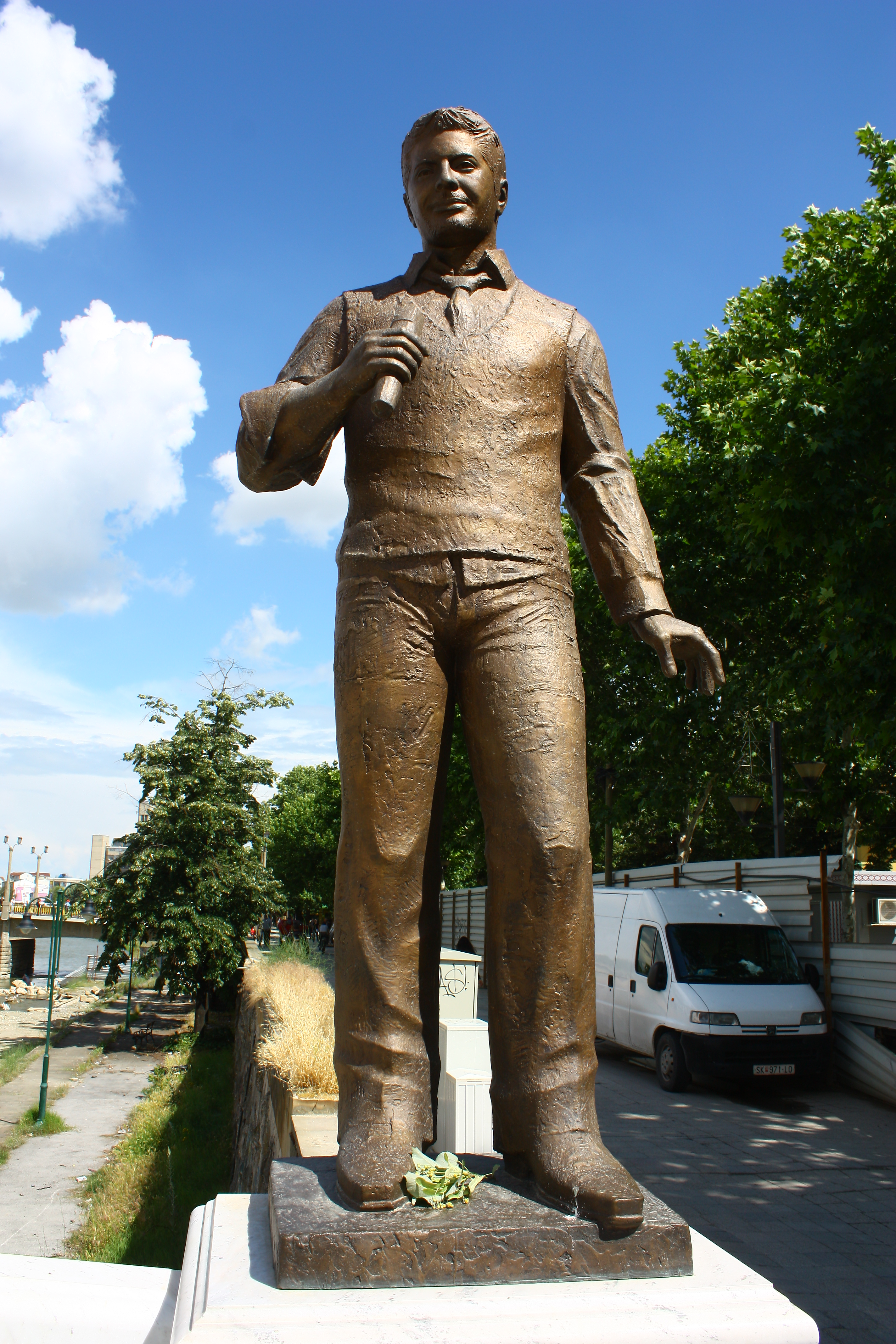 Sculpture od the Bridge of Arts in Skopje, Macedonia This image is uploaded as part of the picture contest Wiki Loves Cultural Heritage in Macedonia 2013. English | македонски | +/−